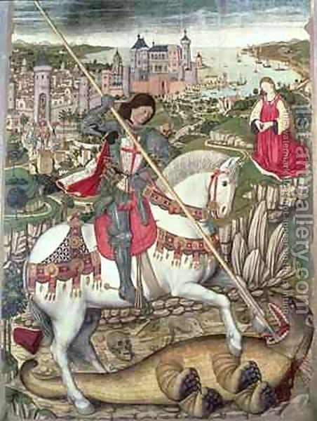 Painting by Pere Nisart. "The central panel of the altarpiece, St George and the Dragon, was commissioned in 1468 for the chapel of the Confraternity of Sant Jordi in the church of Sant Antoni de Padua in Palma, and was completed by the artist in 1470. It is said that the panel was based on the lost St. George painting by Jan van Eyck, which was purchased in Valencia for King Alfonso V in 1444. Due to the artist’s foreign origins, he was obliged under guild rules to work alongside an important Mallorcan painter, Rafel Moger. The three smaller panels are attributed to Don Moger. The painting is highly praised for its masterly execution and the importance of its subject, the slaying of the dragon, as well as for its historical references of the entry of Jaume I de Aragón into Madina Mayurqa, capturing it from the Moors. Most importantly, the painting is historically significant and valuable for its accurate representation of the historical geography of the bay of Palma and its port, even though the walled city is painted in a style suggesting a Dutch rather than a Mediterranean appearance. The painting was extensively restored a few years ago, courtesy of Sa Nostra, the local Savings Bank, as far as I recall. It is said that no other authenticated work by Niçard/Nisart survives, apart from some etchings. The original masterpiece can be admired in all its splendour at the Museu Diocesà in Palma." ( 2010)